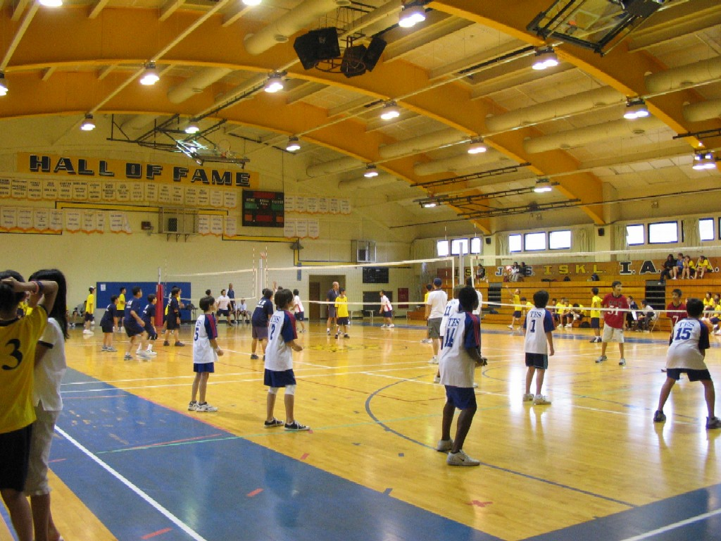 Taipei American School Upper Gym. Picture taken October 2005 by Allen Timothy Chang.